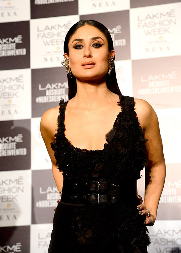 Kareena Kapoor Kareeena Kapoor at the Lakme Fashion Week 2018.